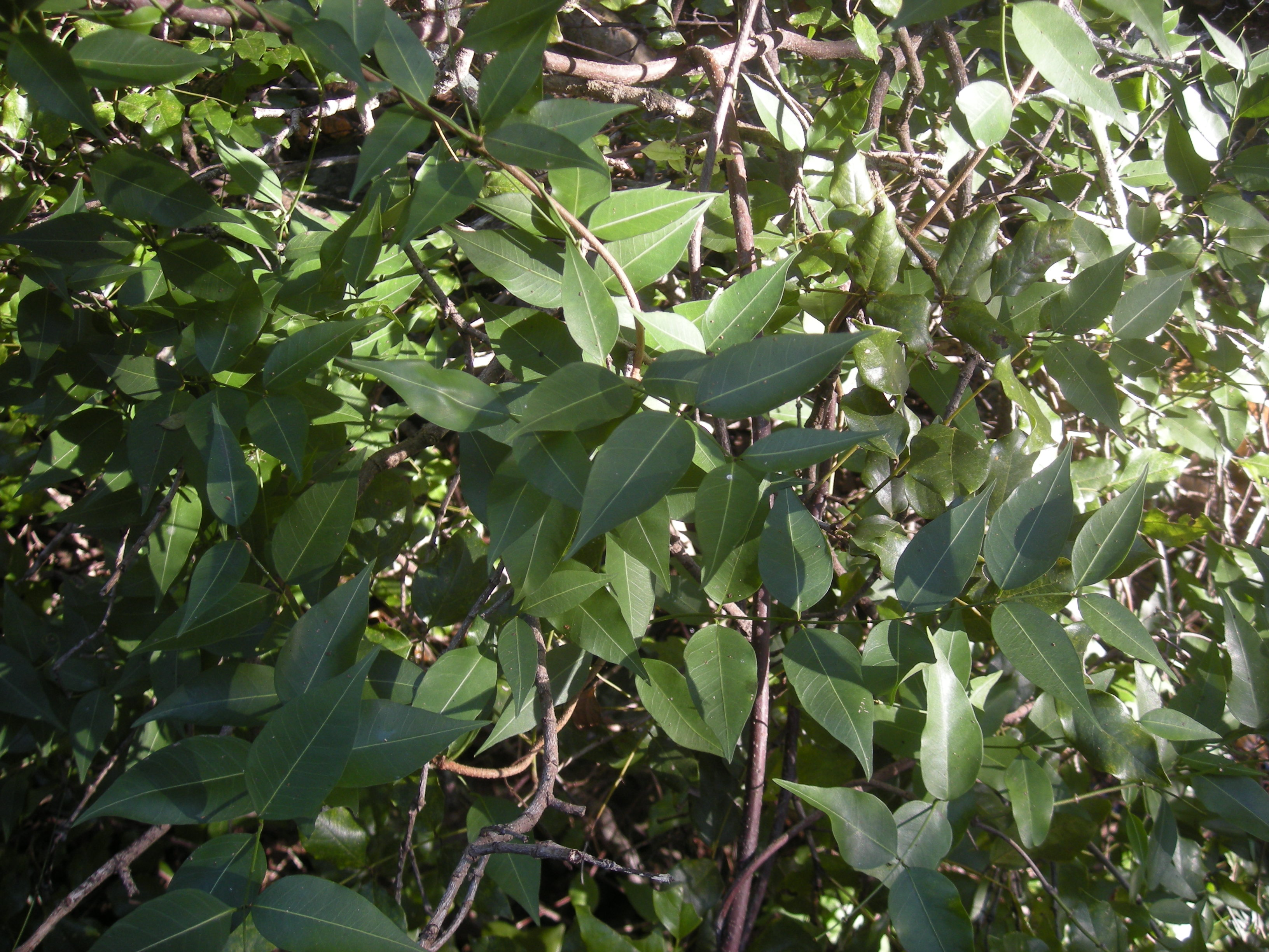 Gymnanthera oblonga, Mt Archer National Park